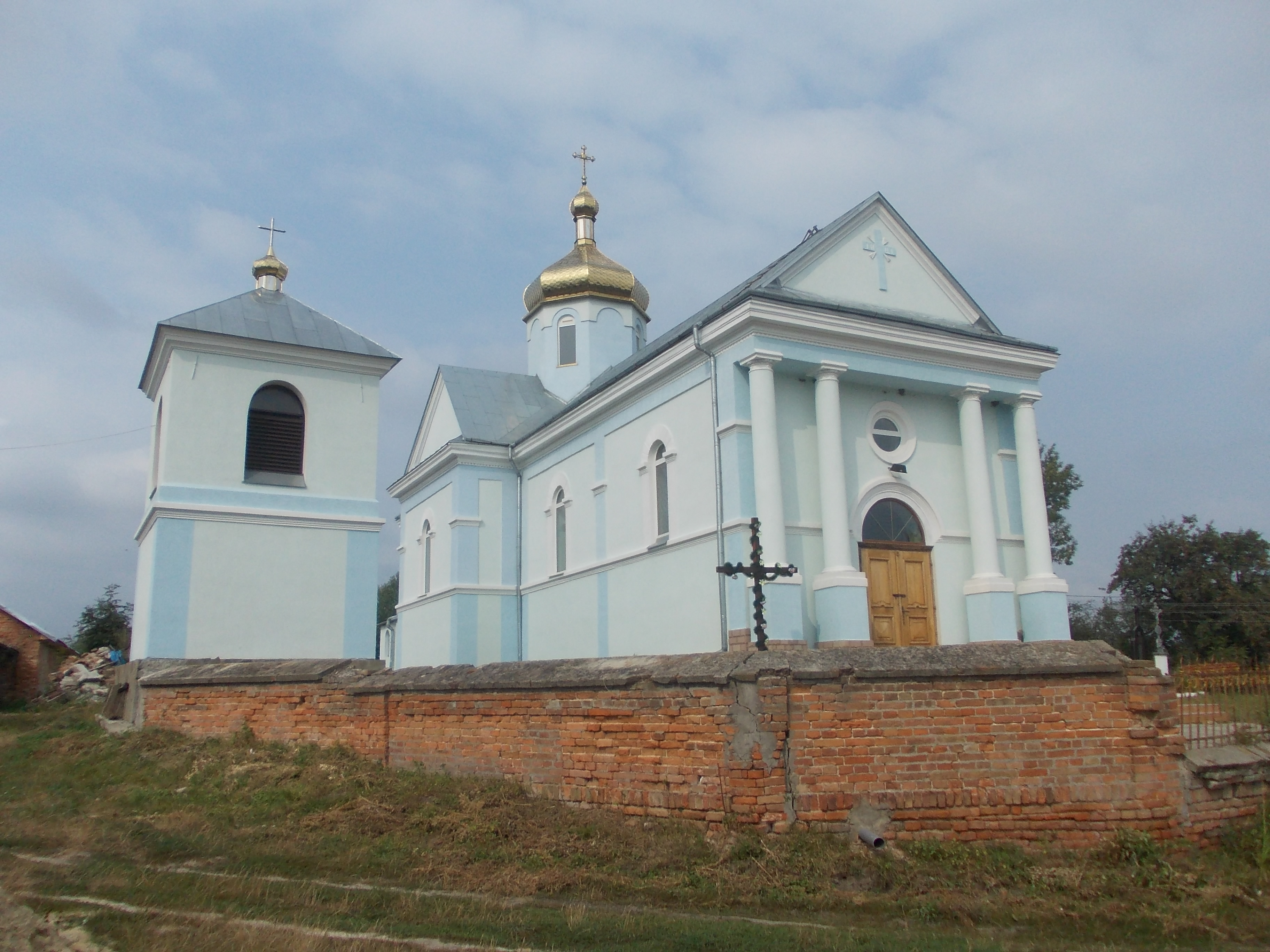 Church of Saints Borys and Hlib in Luchytsi village, Sokal Raion